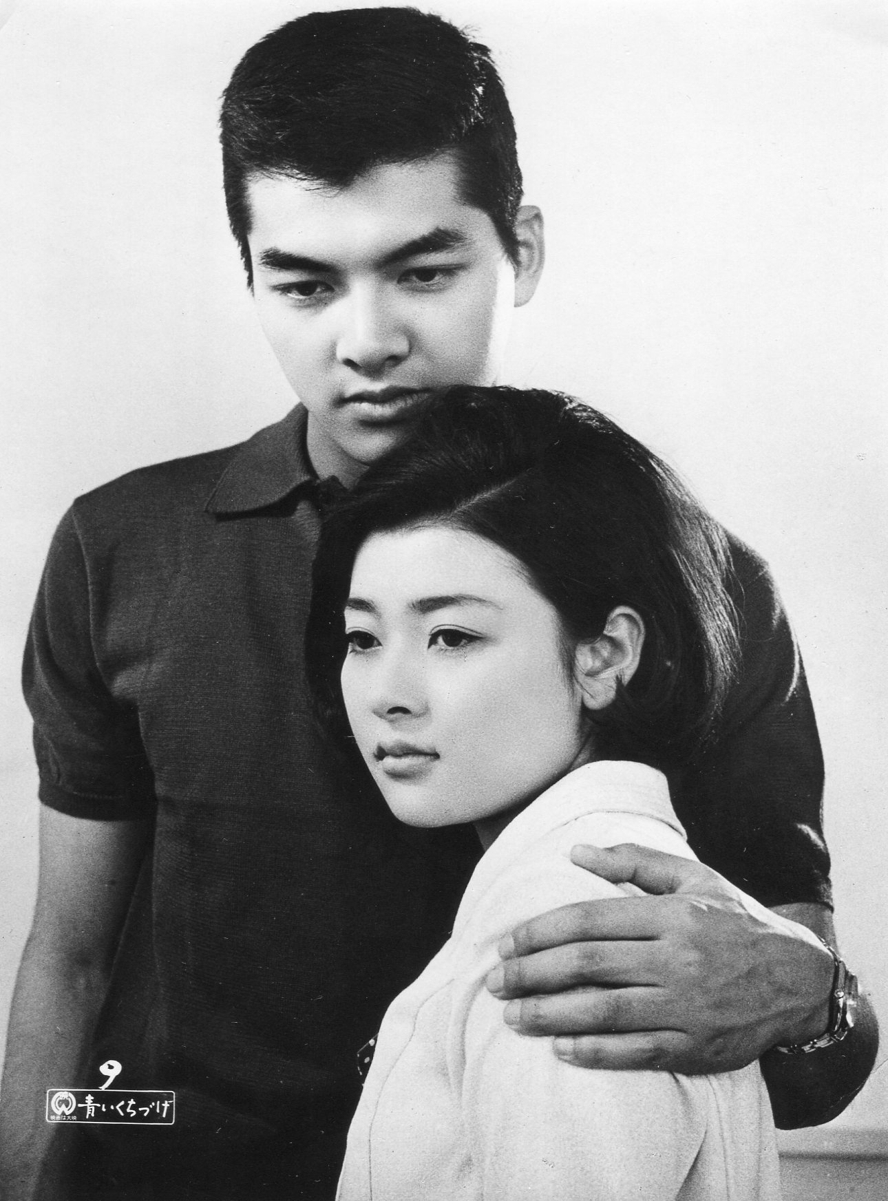 front to back: Miwa Takada, Isao Kuraishi in "Aoi Kuchiduke" (1965) - publicity still